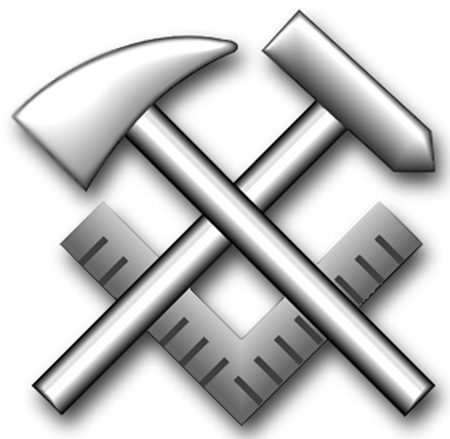 US Navy Hull Maintenance Technician (HT). Crossed fire axe and maul, handles down; fire axe blade to front, on a carpenter's square that points down.